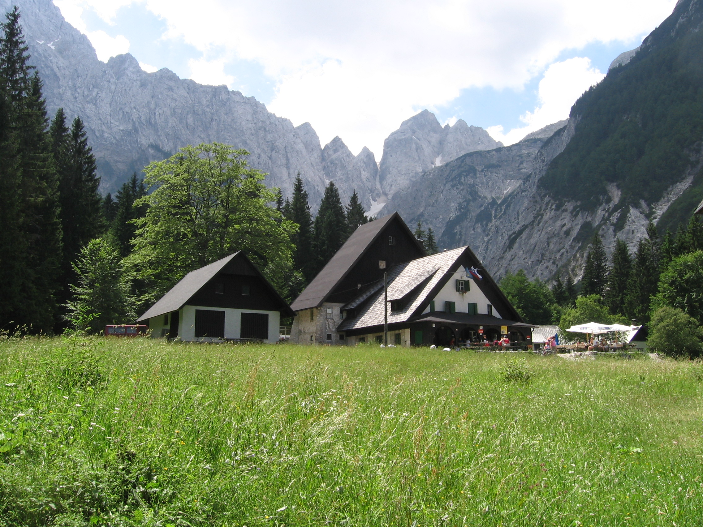 Hut in Tamar valley, with Jalovec